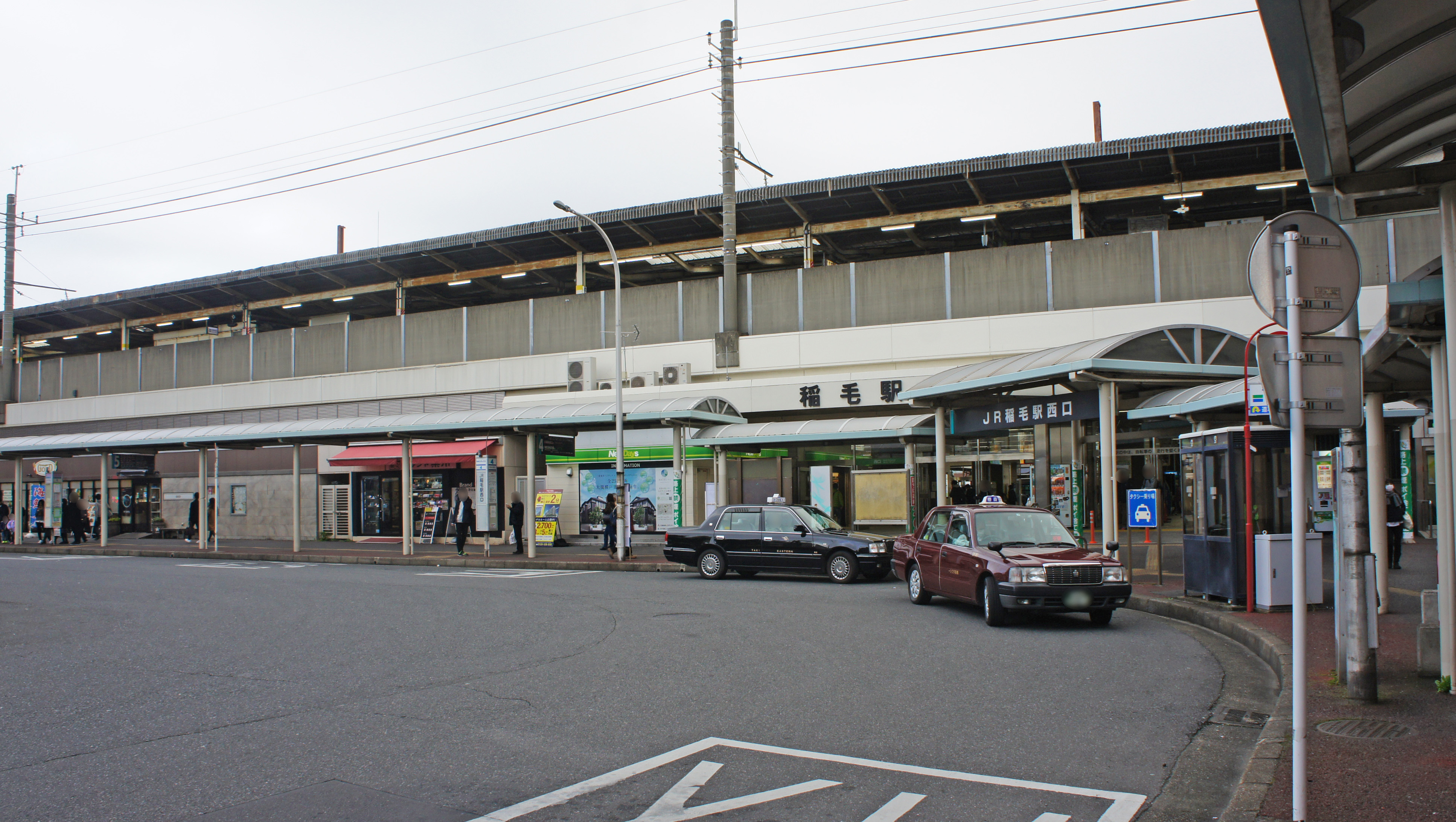 West Exit of JR Sobu-Main-Line Inage Station